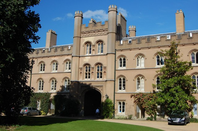 New Court, Trinity College This is the eastern side of New Court, Trinity (no longer so new).